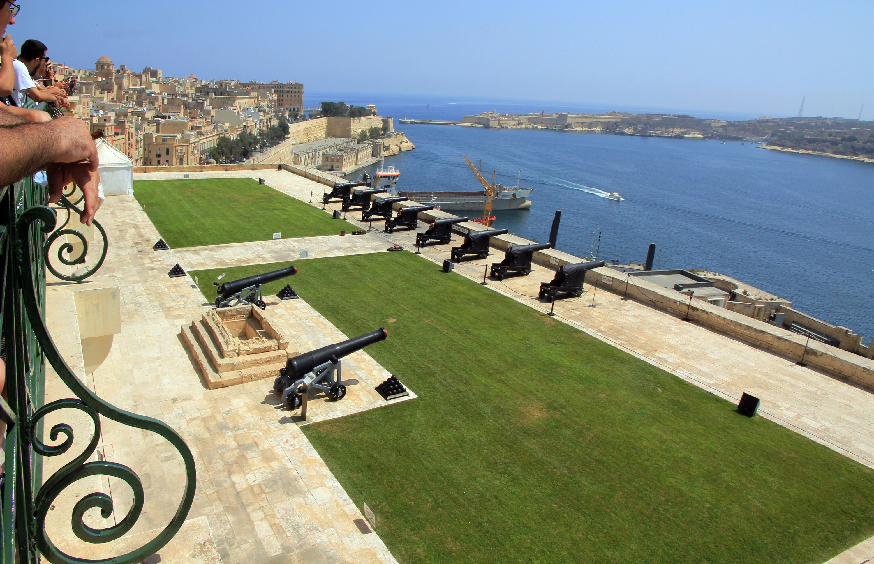 View from Upper Barrakka Gardens on the Saluting Battery and on part of the Valletta Grand Harbour, Malta